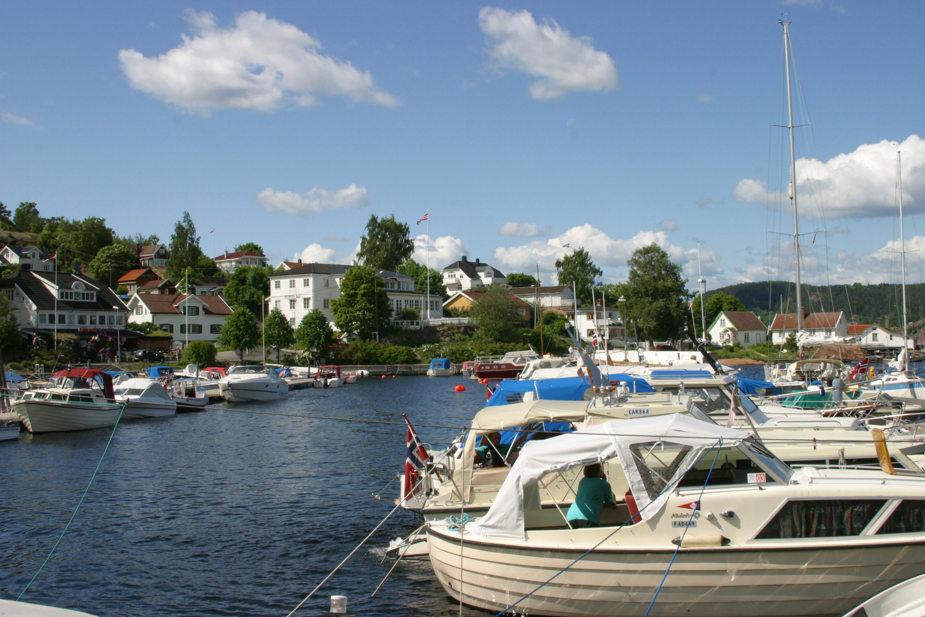 Picture of Holmsbu (Buskerud - Norway)